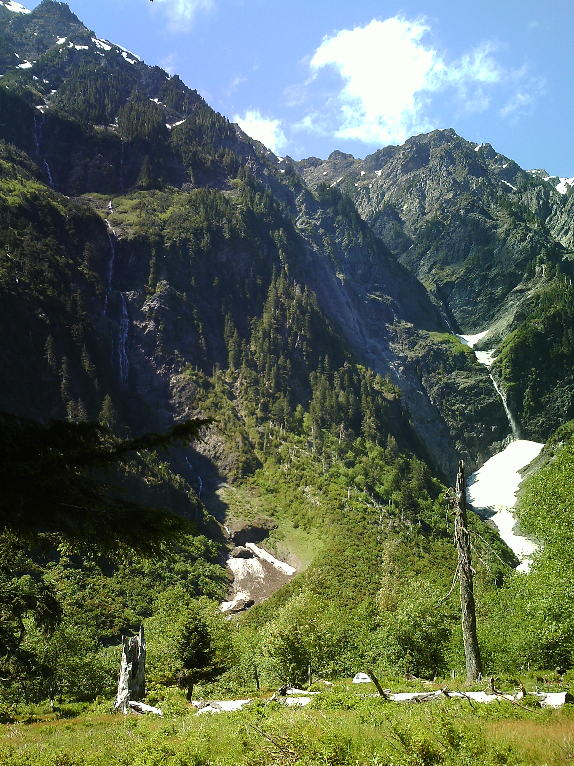 Enchanted Valley, part of the East Fork Quinault River in Olympic National Park. Approx 1/2 mile upstream of ranger station.